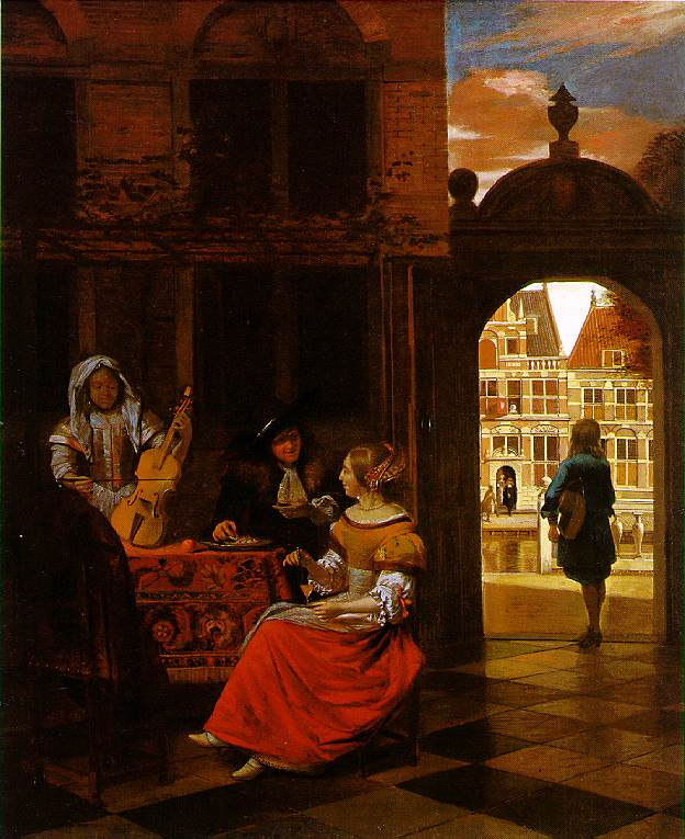 Musical Party in a Courtyard